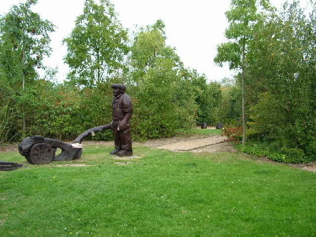 Watchmoor Reserve. A sculpture in Watchmoor Reserve, a small wildlife area with new trees, ponds, sculptures and an outdoor classroom